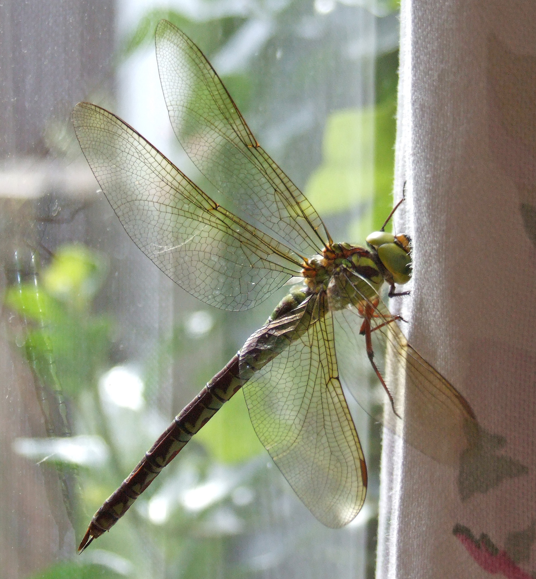 Green Hawker, female (Aeshna viridis Eversmann 1836), Kirchwerder, Hamburg, Germany